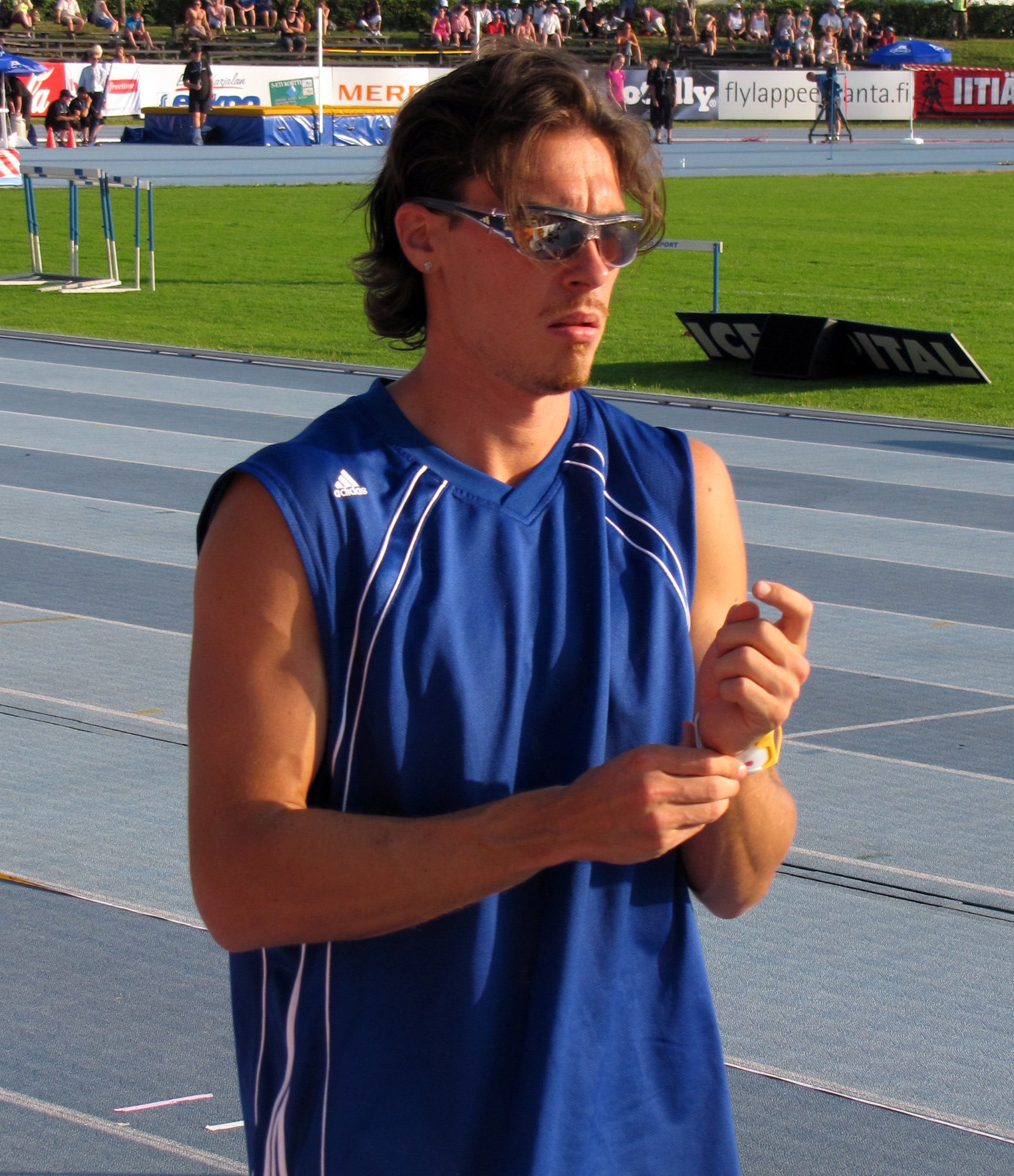 Finnish long jumper Tommi Evilä at Lappeenranta Games, Finland, 2010.